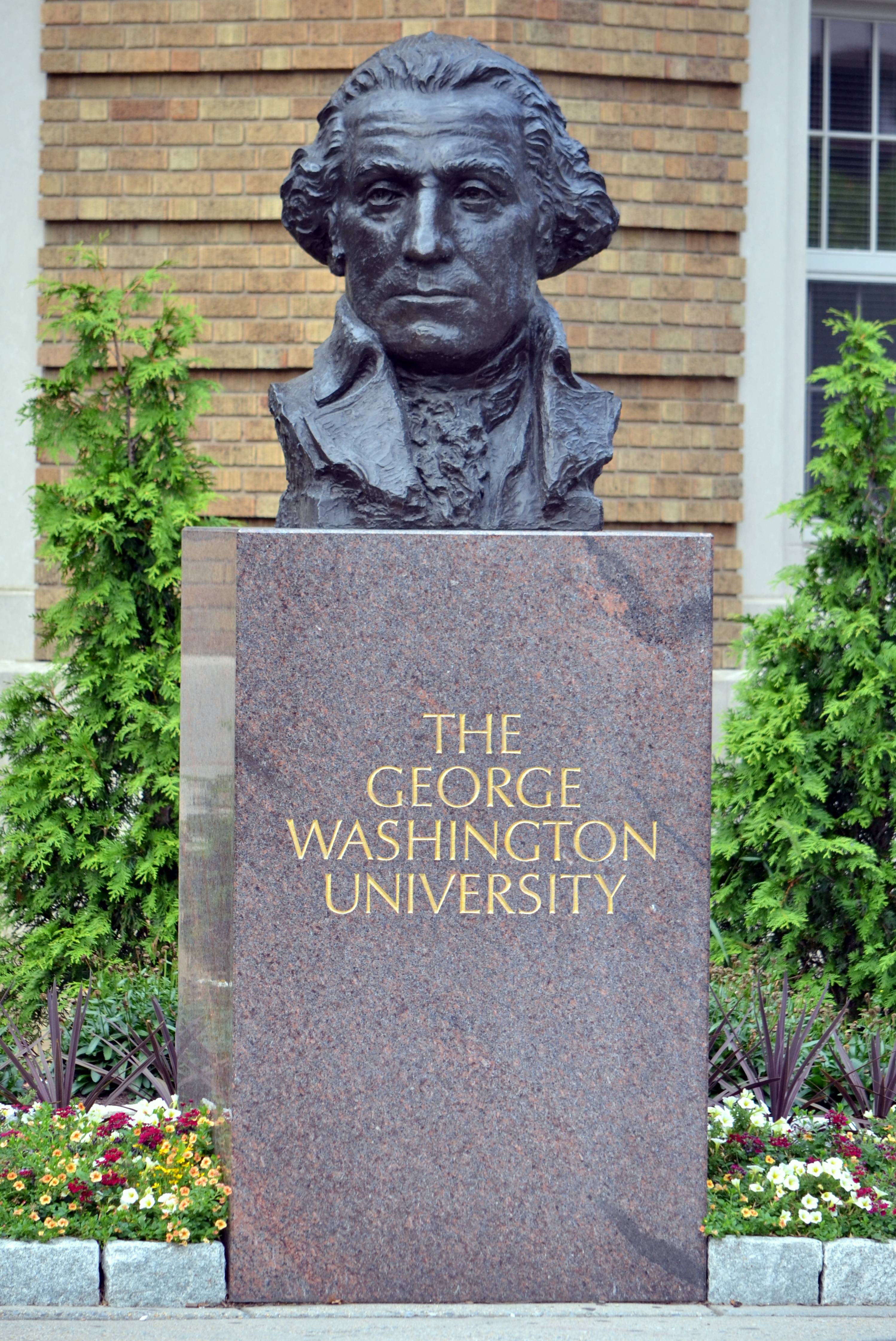 George Washington Monument, George Washington University, Washington DC.